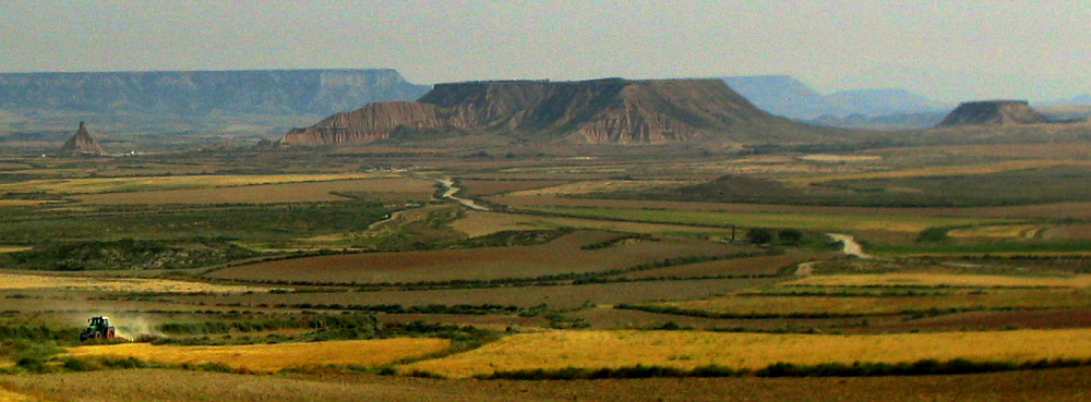 Monadnocks in the south of Navarre